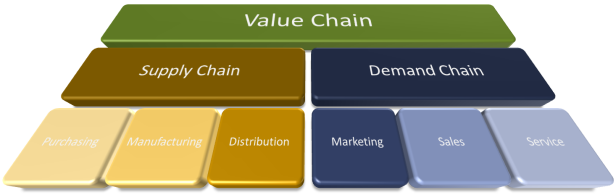 Value chain decomposed into supply and demand chains